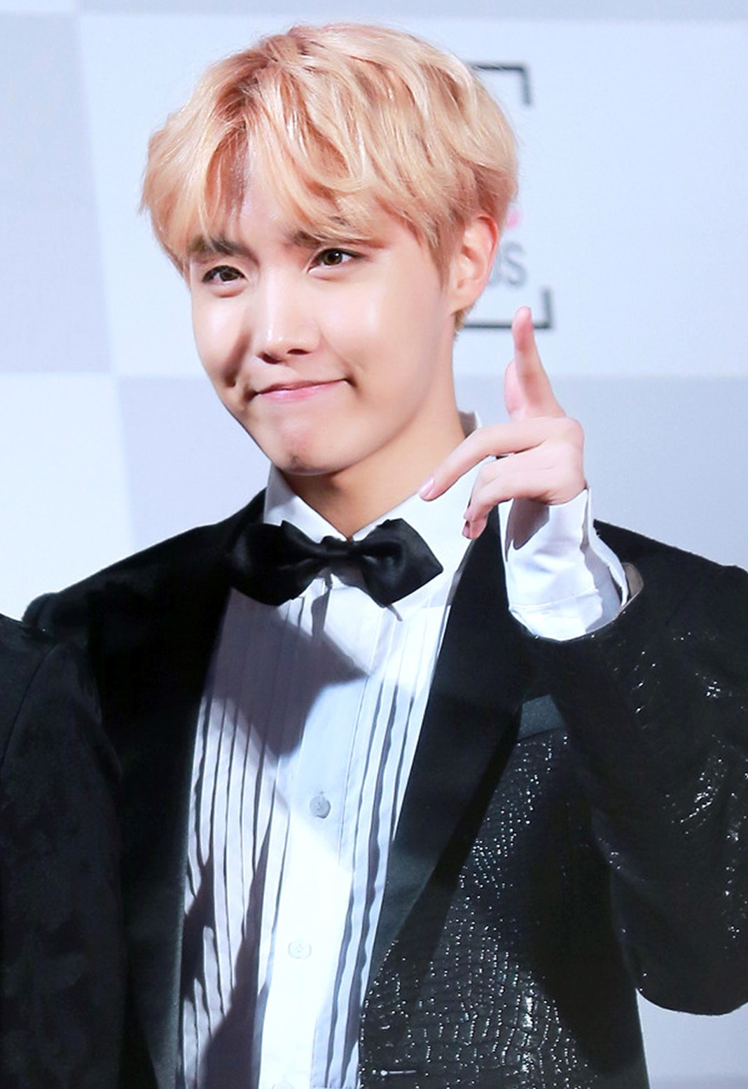 J-Hope at 26th Seoul Music Awards on January 19, 2017.